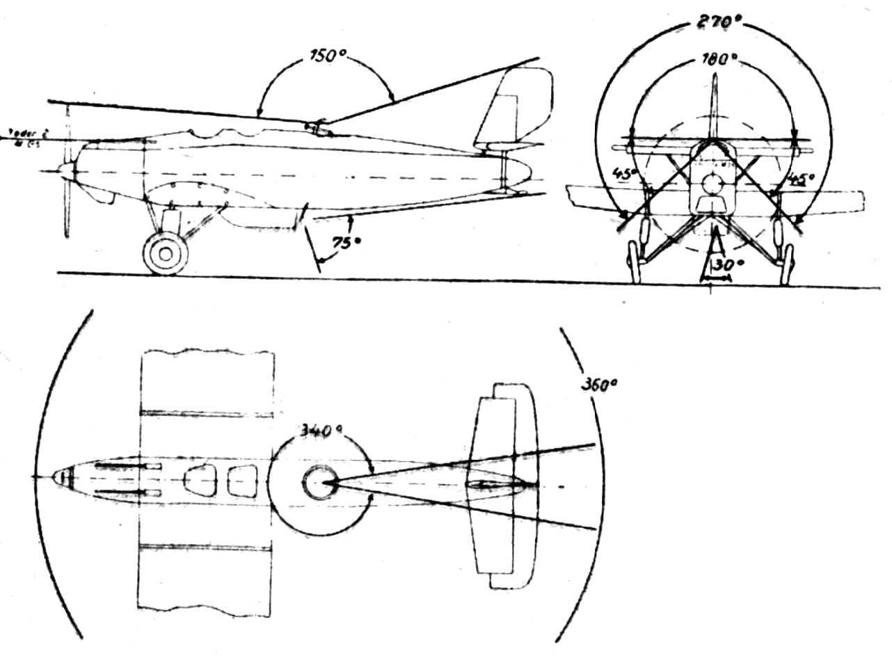 Junkers K 39 3-view arc of fire drawing from L'Aérophile April,1928